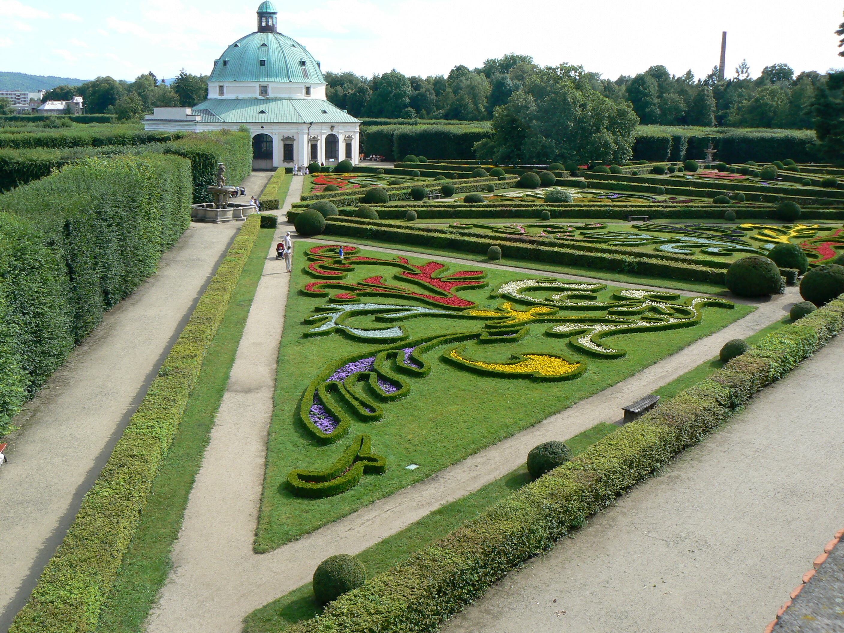 Flower garden in Kroměříž, Kroměříž District, Czech Republic.